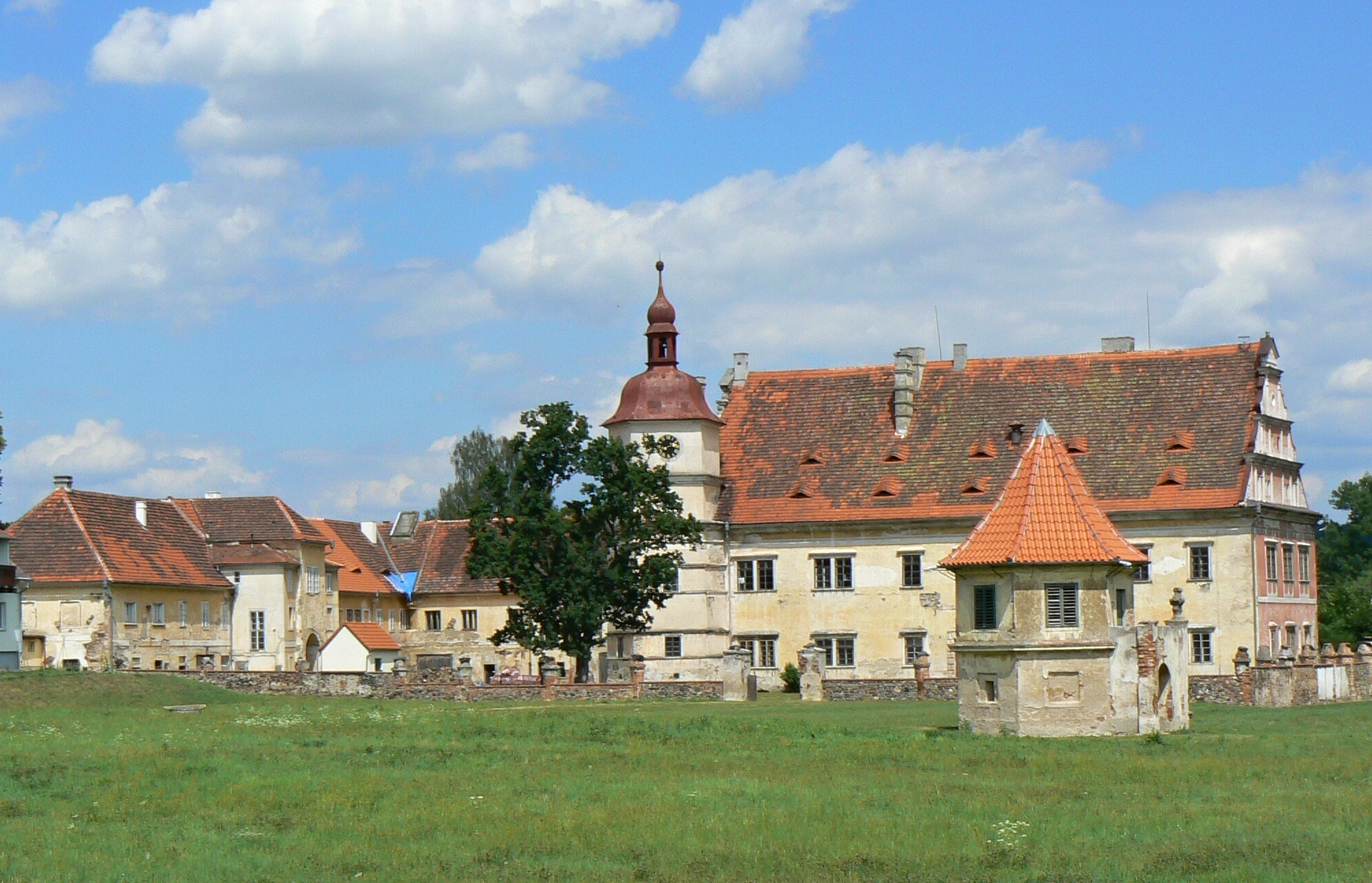 Chateau in Červené Poříčí in Klatovy District